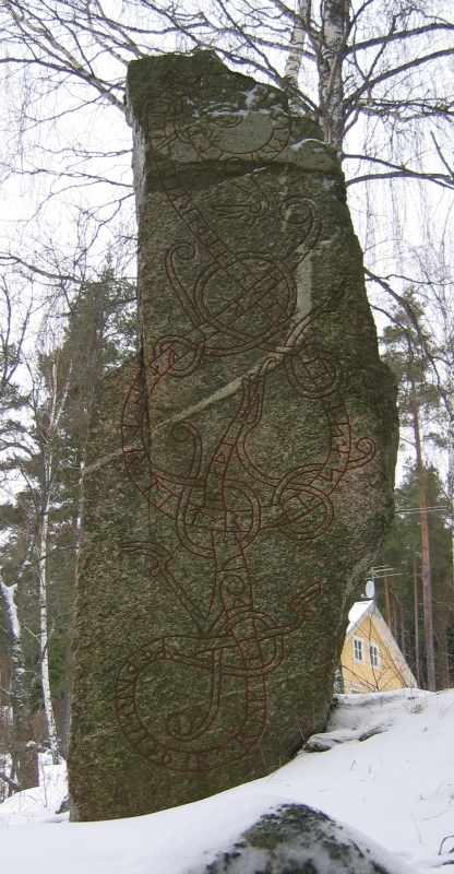 Runestone U 455, Näsby, Odensala parish, Uppland, Sweden